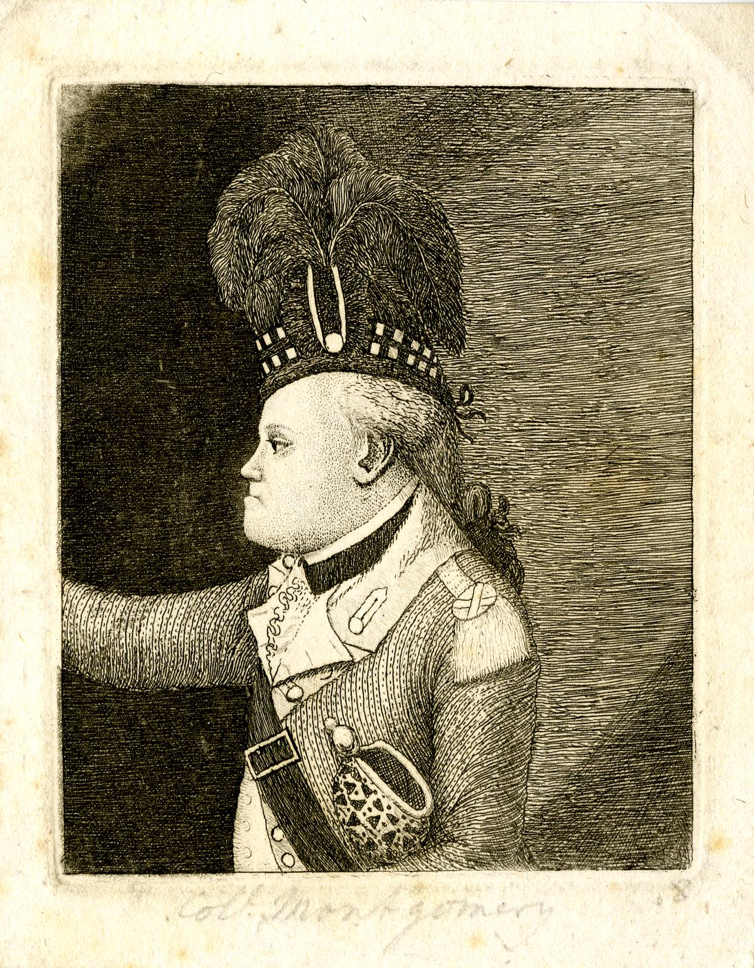 Portrait; half-length in profile to left, right arm raised, wearing uniform with his sword hilt tucked under his left arm and a plumed cap. Etching with mezzotint tone